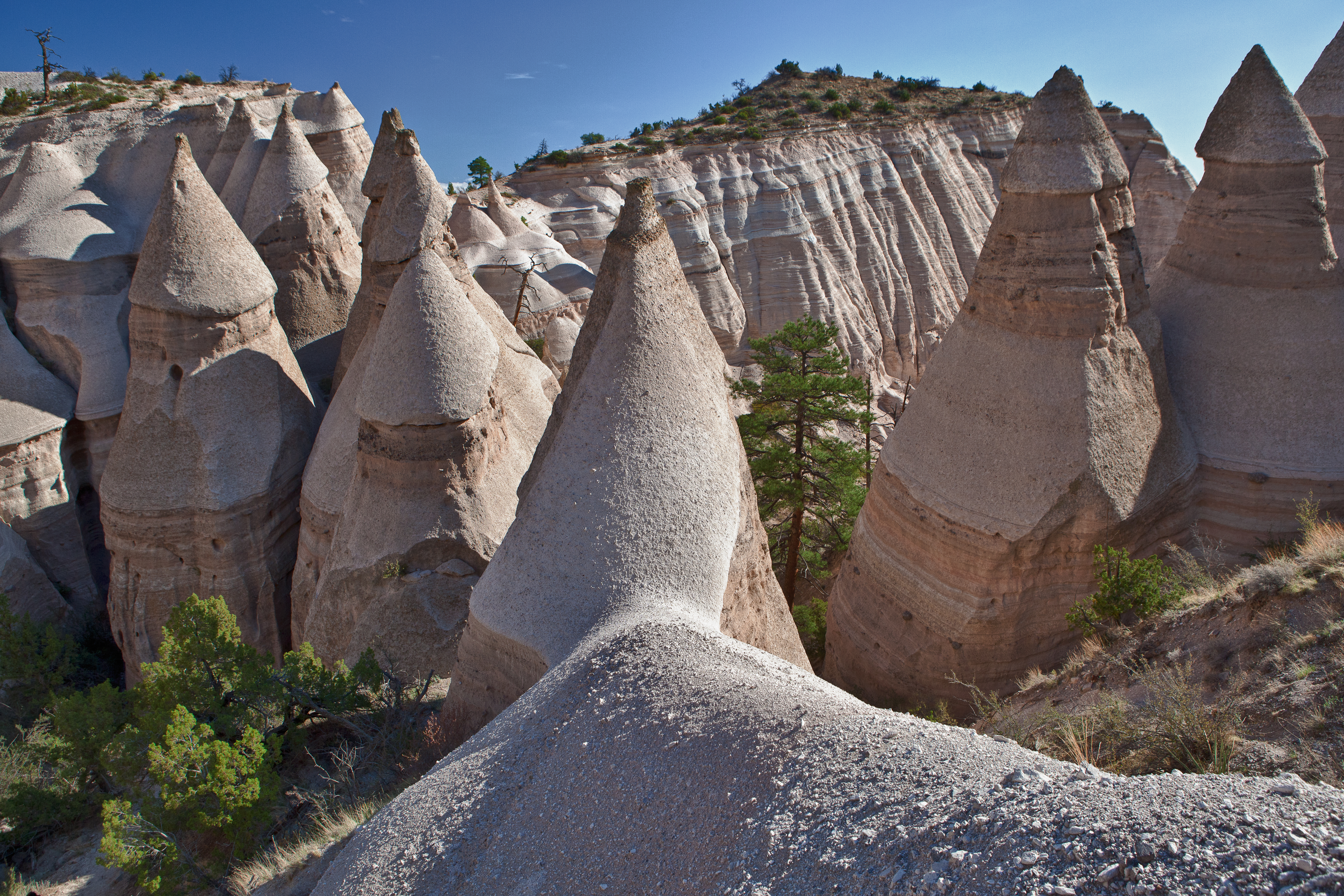 The Kasha-Katuwe Tent Rocks National Monument in New Mexico is a remarkable outdoor laboratory, offering an opportunity to observe, study, and experience the geologic processes that shape natural landscapes. The national monument, on the Pajarito Plateau in north-central New Mexico, includes a national recreation trail and ranges from 5,570 feet to 6,760 feet above sea level. The cone-shaped tent rock formations are the products of volcanic eruptions that occurred 6 to 7 million years ago and left pumice, ash and tuff deposits over 1,000 feet thick. Tremendous explosions from the Jemez volcanic field spewed pyroclasts (rock fragments), while searing hot gases blasted down slopes in an incandescent avalanche called a “pyroclastic flow.” In close inspections of the arroyos, visitors will discover small, rounded, translucent obsidian (volcanic glass) fragments created by rapid cooling. Please leave these fragments for others to enjoy. The complex landscape and spectacular geologic scenery of the national monument has been a focal point for visitors for centuries. Before nearby Cochiti Reservoir was built, surveys recorded numerous archaeological sites reflecting human occupations spanning 4,000 years. During the 14th and 15th centuries, several large ancestral pueblos were established and their descendants, the Pueblo de Cochiti, still inhabit the surrounding area. Kasha-Katuwe means “white cliffs” in the traditional Keresan language of the Pueblo. Learn more about the national monument and plan your visit: Photo: Bob Wick, BLM California